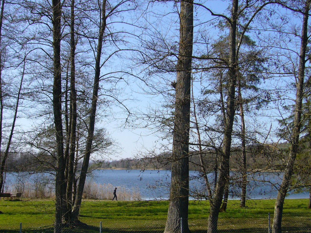 The lake of Huettwilen, Canton Thurgau, Switzerland. Picture from Peter Berger. April 6, 2007.